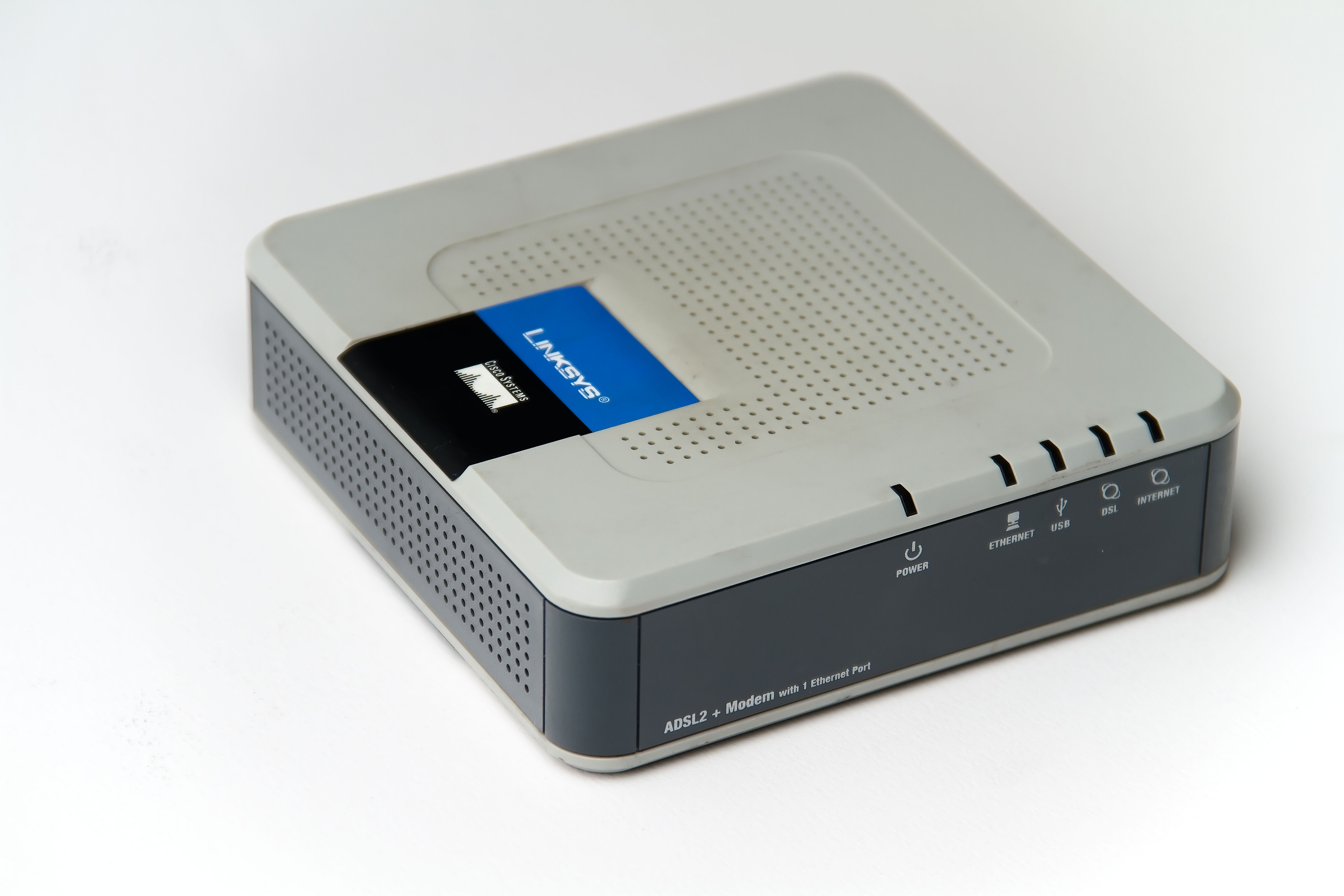 Linksys ADSL Modem AM300